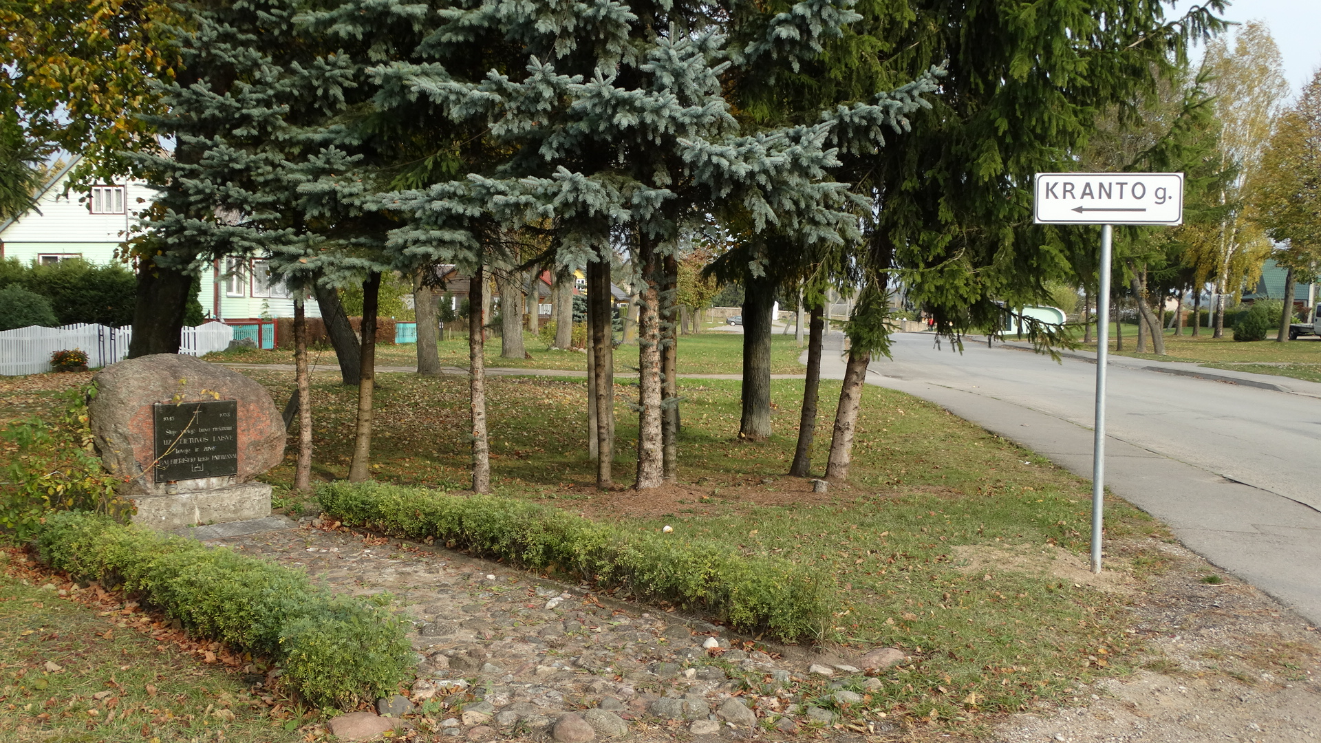 Stone to partisans in Balbieriškis, Prienai District, Lithuania